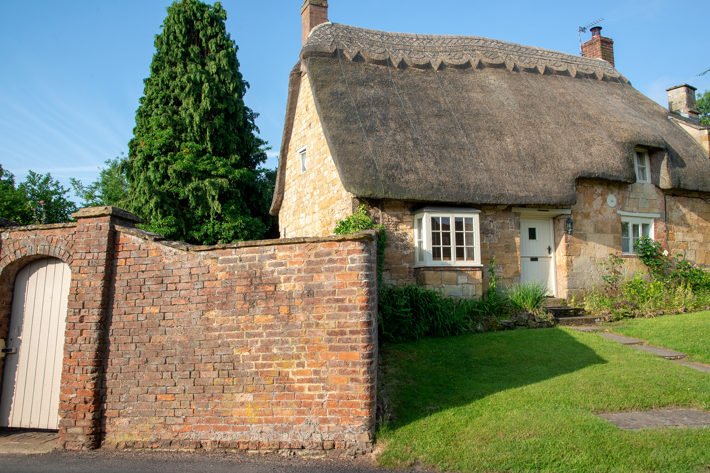 Tea Cosy Cottage with thatched roof in the village of Stretton-on Fosse, Cotswolds